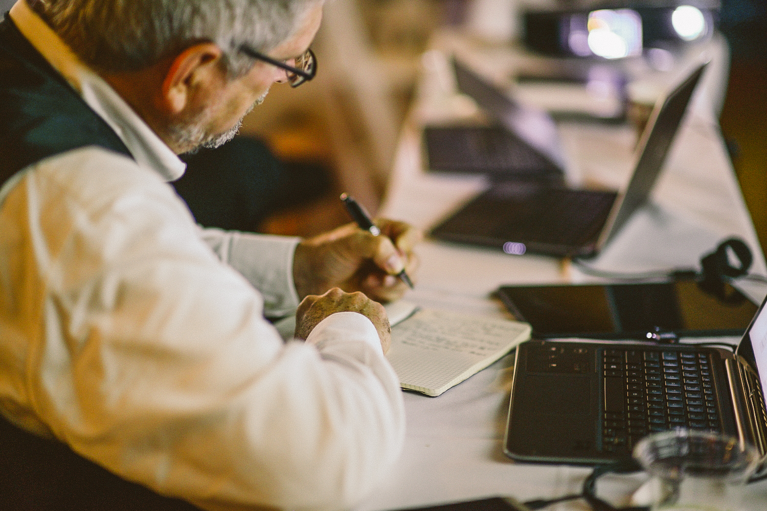 Innovation Tech Series: Corporate Connection